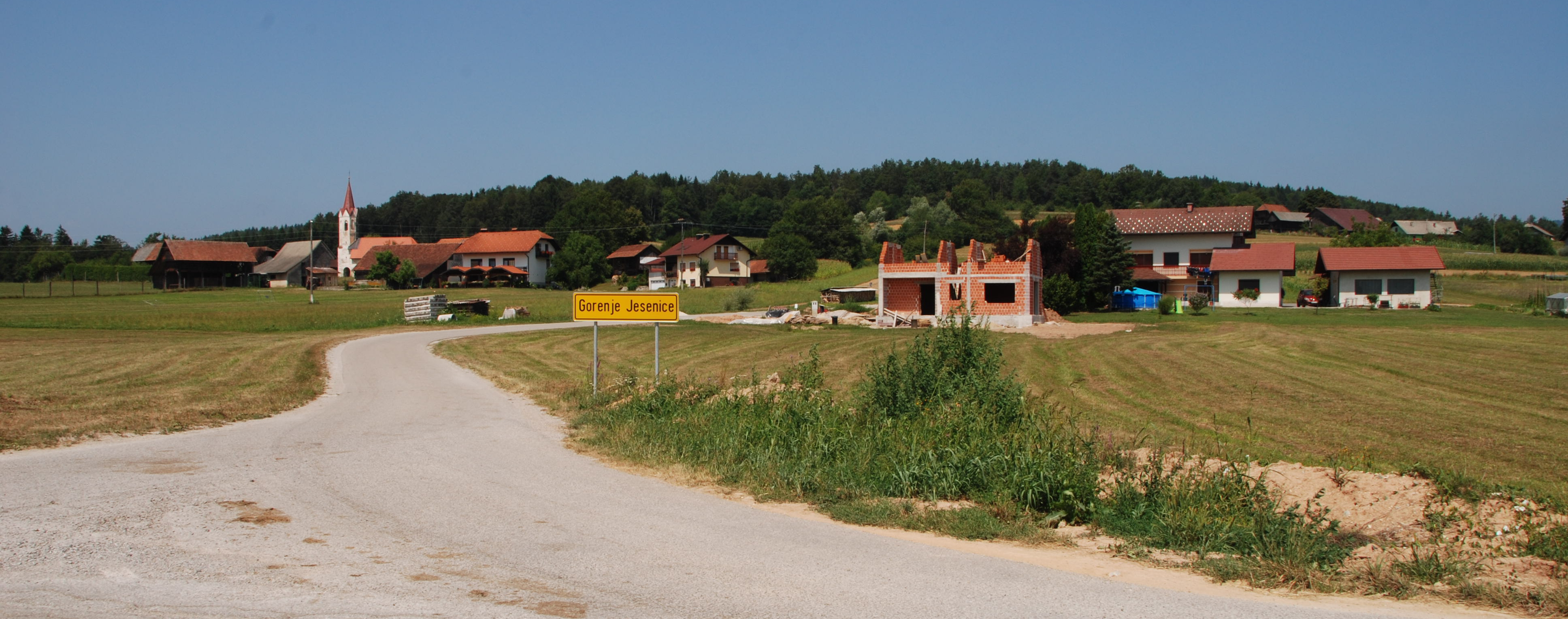 The village of Gorenje Jesenice (Municipality of Šenrupert).